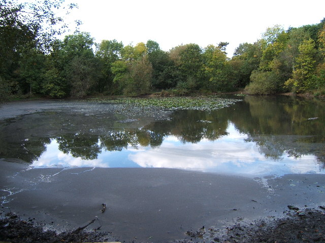 Upper Pond, Ashtead Park.